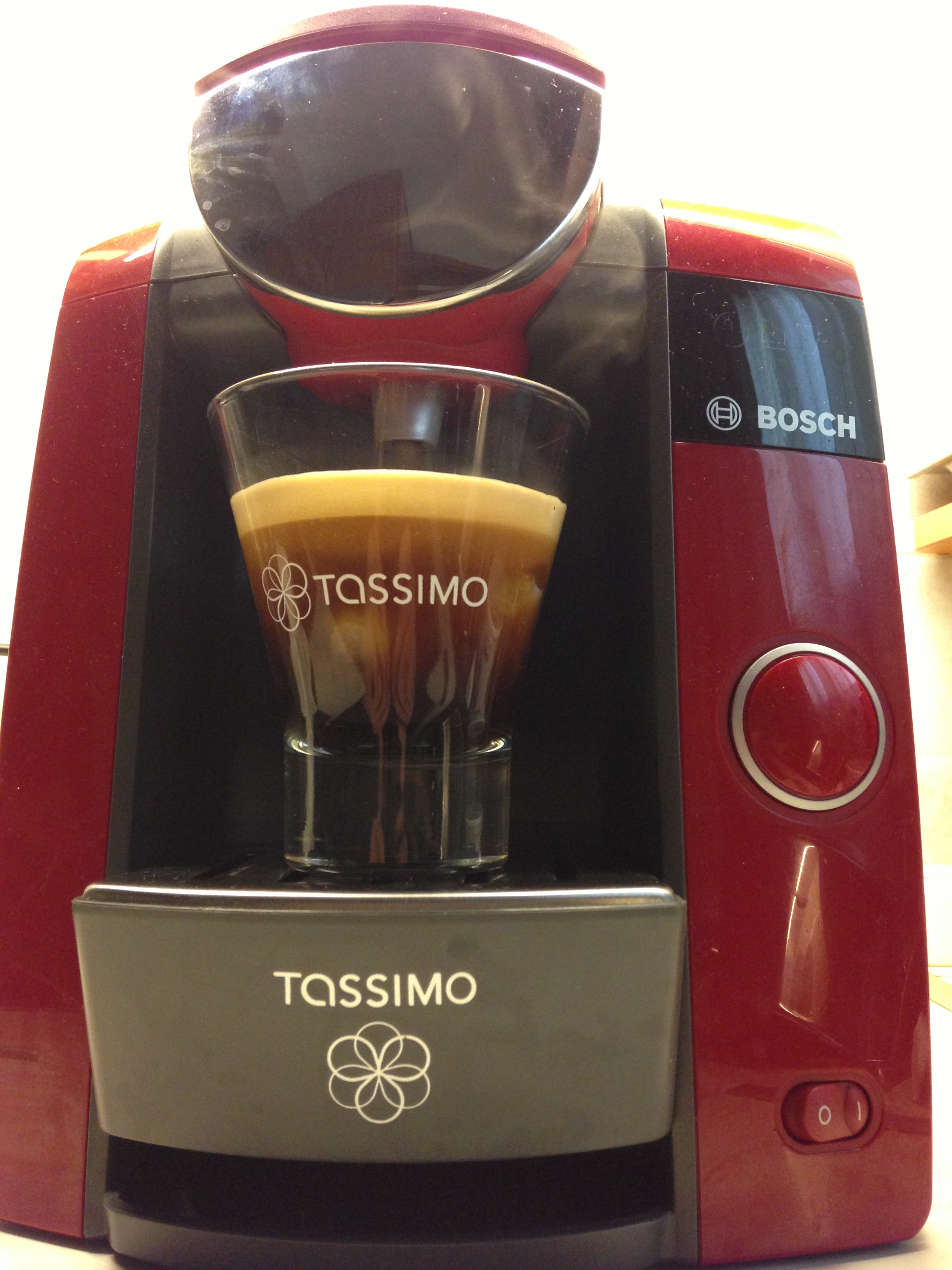 TASSIMO JOY hands on.